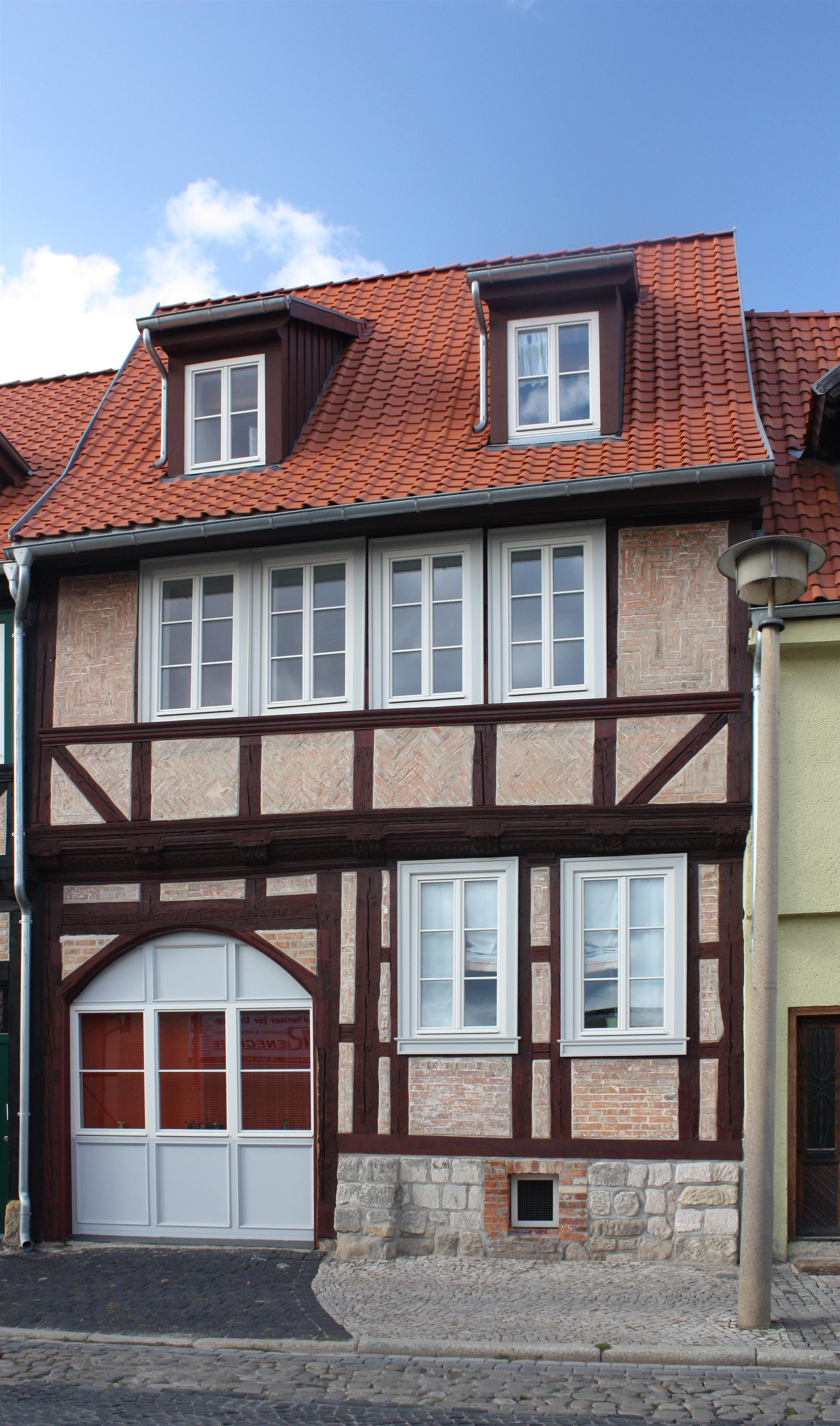 This is a photograph of an architectural monument.It is on the list of cultural monuments of Quedlinburg Augustinern 8 in Quedlinburg